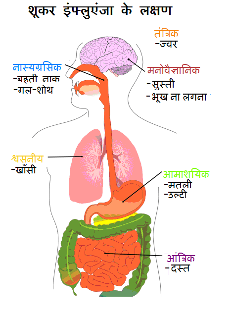 Diagram of swine flu symptoms